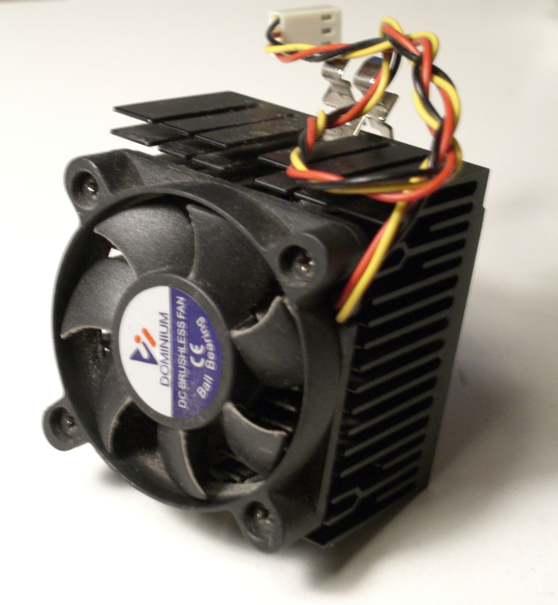 Simple Socket 370 Heatsink.